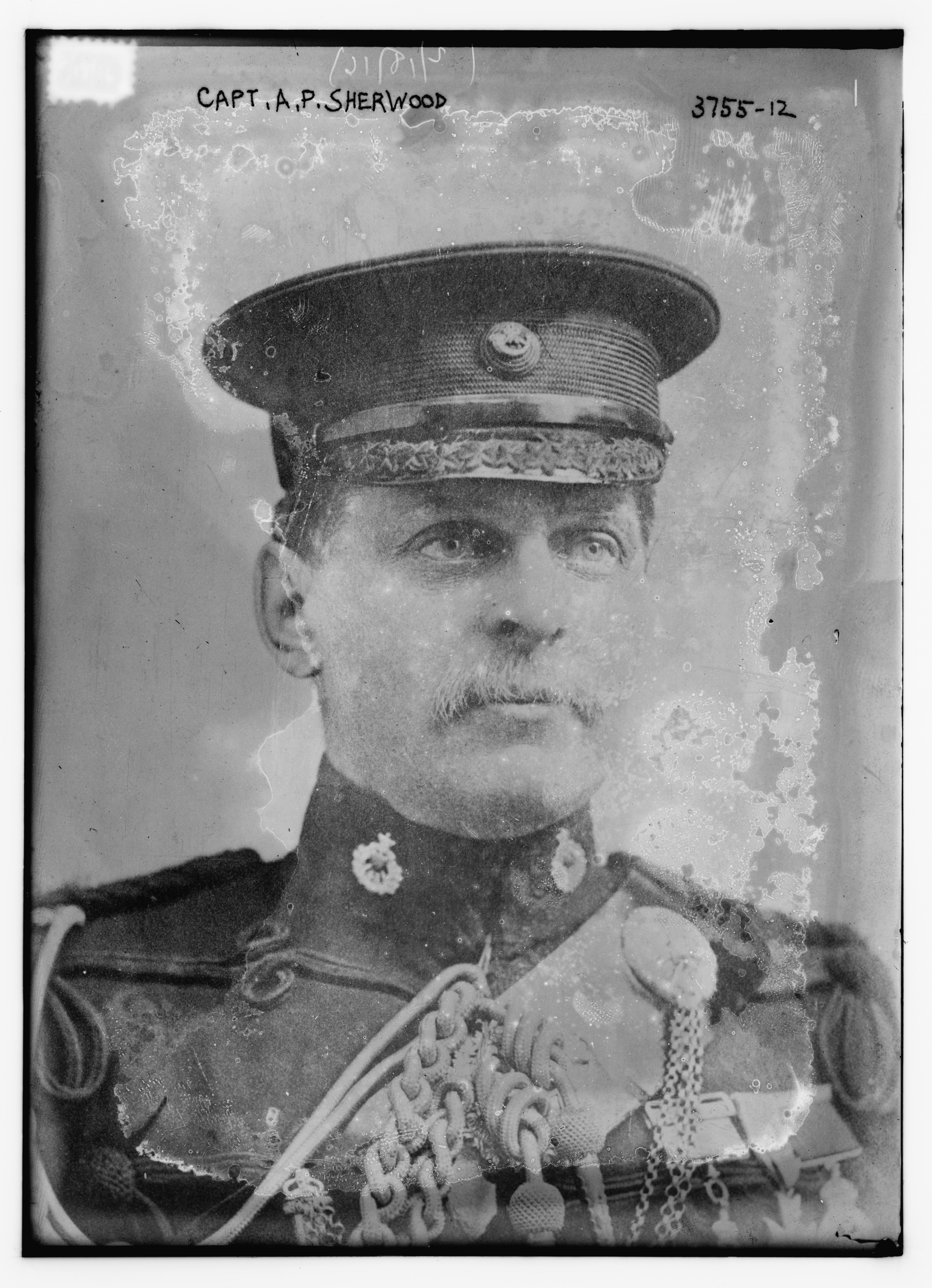 Title: Capt. A.P. Sherwood Abstract/medium: 1 negative : glass ; 5 x 7 in. or smaller.